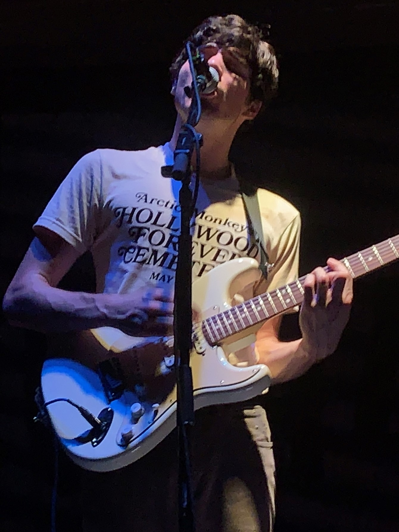 Braeden Lemasters playing a guitar during a concert at Newport Music Hall in Columbus, OH on September 7, 2019.